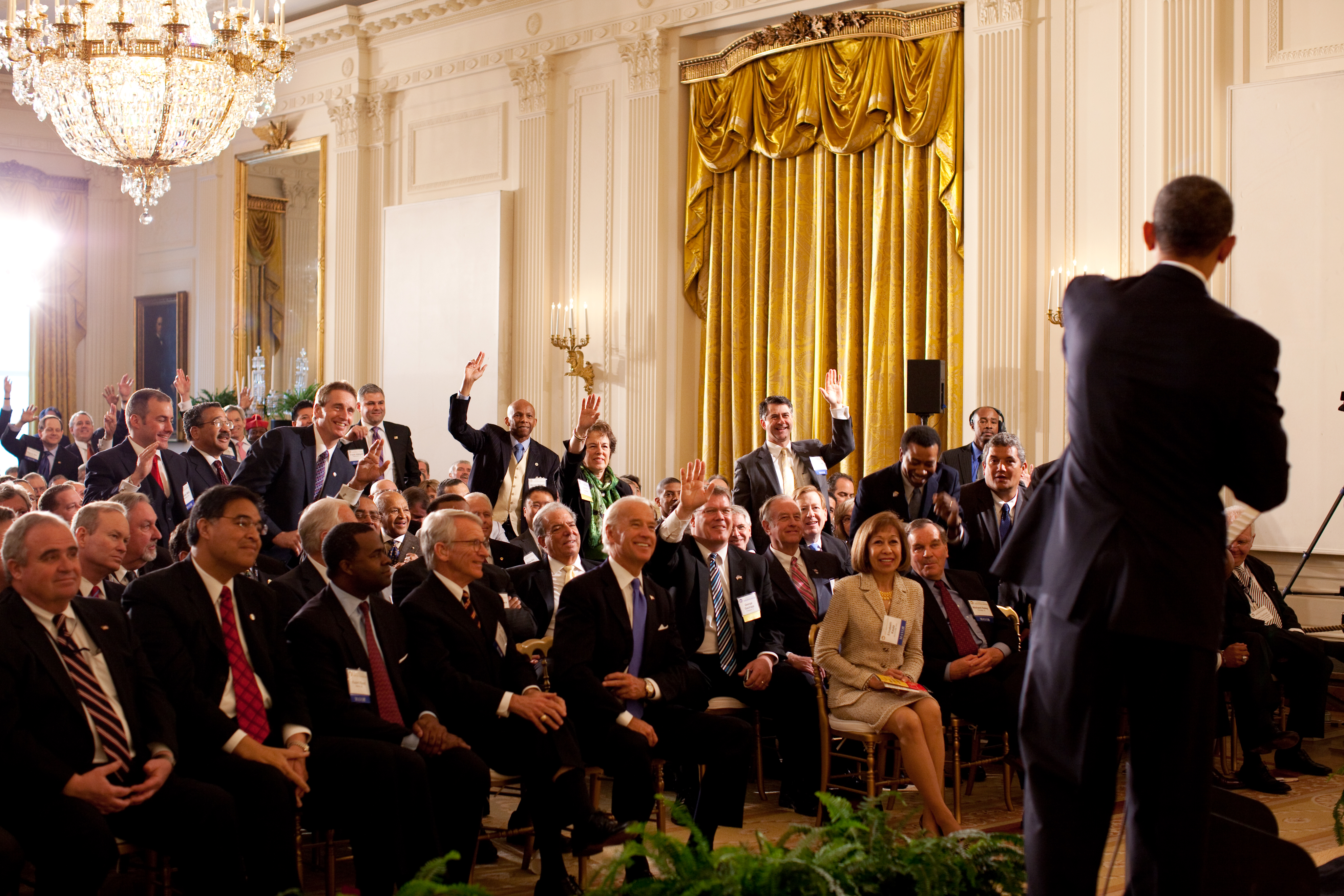 President Barack Obama participates in a Q&A session during the U.S Conference of Mayors meeting in the East Room of the White House, Jan. 21, 2010. (Official White House Photo by Pete Souza)